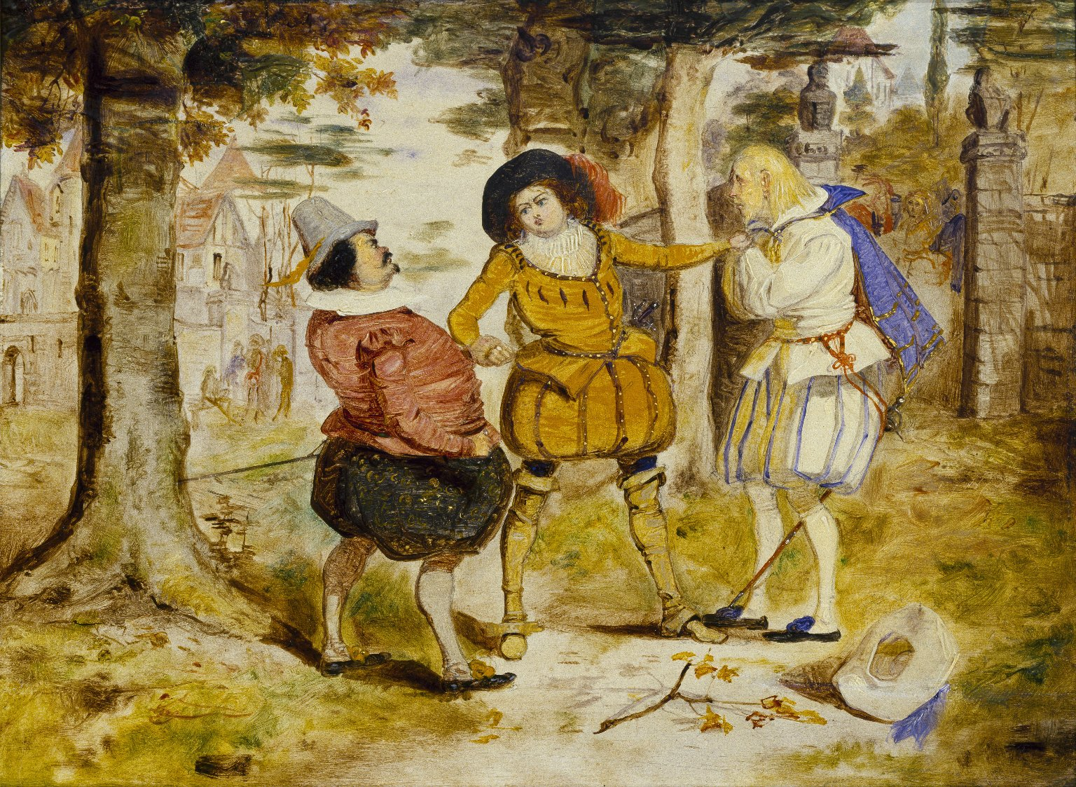 From Act IV, Scene 1 of William Shakespeare's Twelfth Night